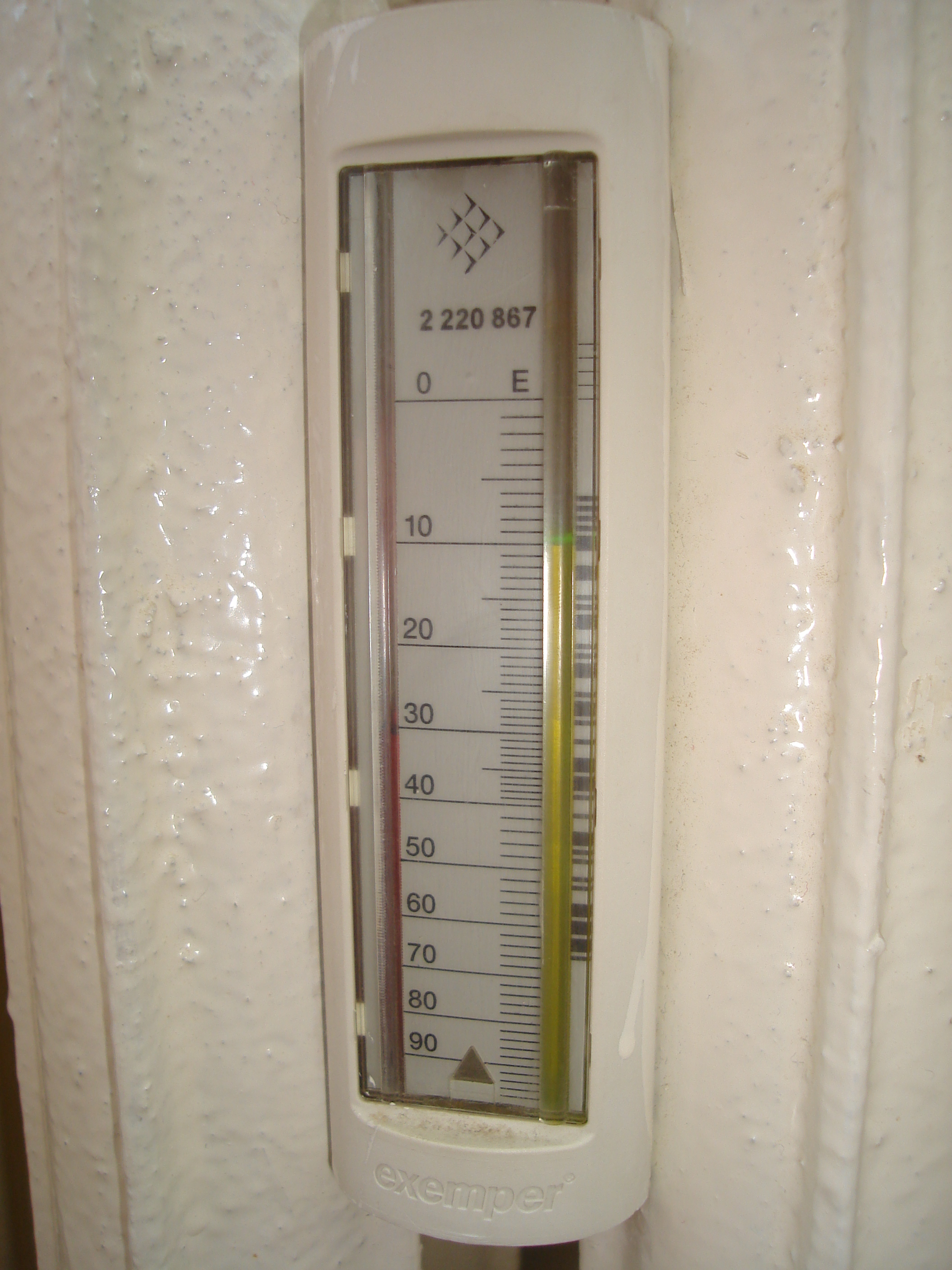 Heating-cost divider